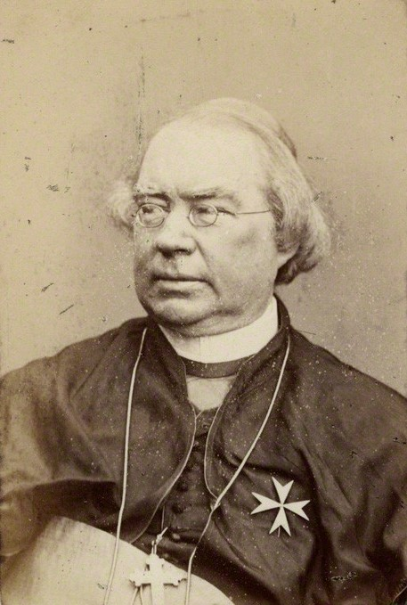 Nicholas Wiseman, Cardinal Archbishop of Westminster